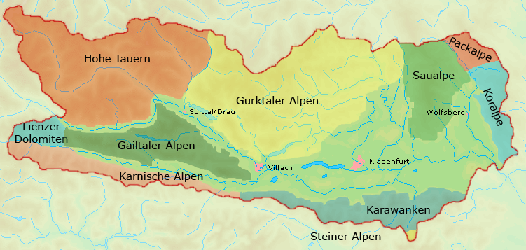 Mountain ranges in Carinthia, Austria.